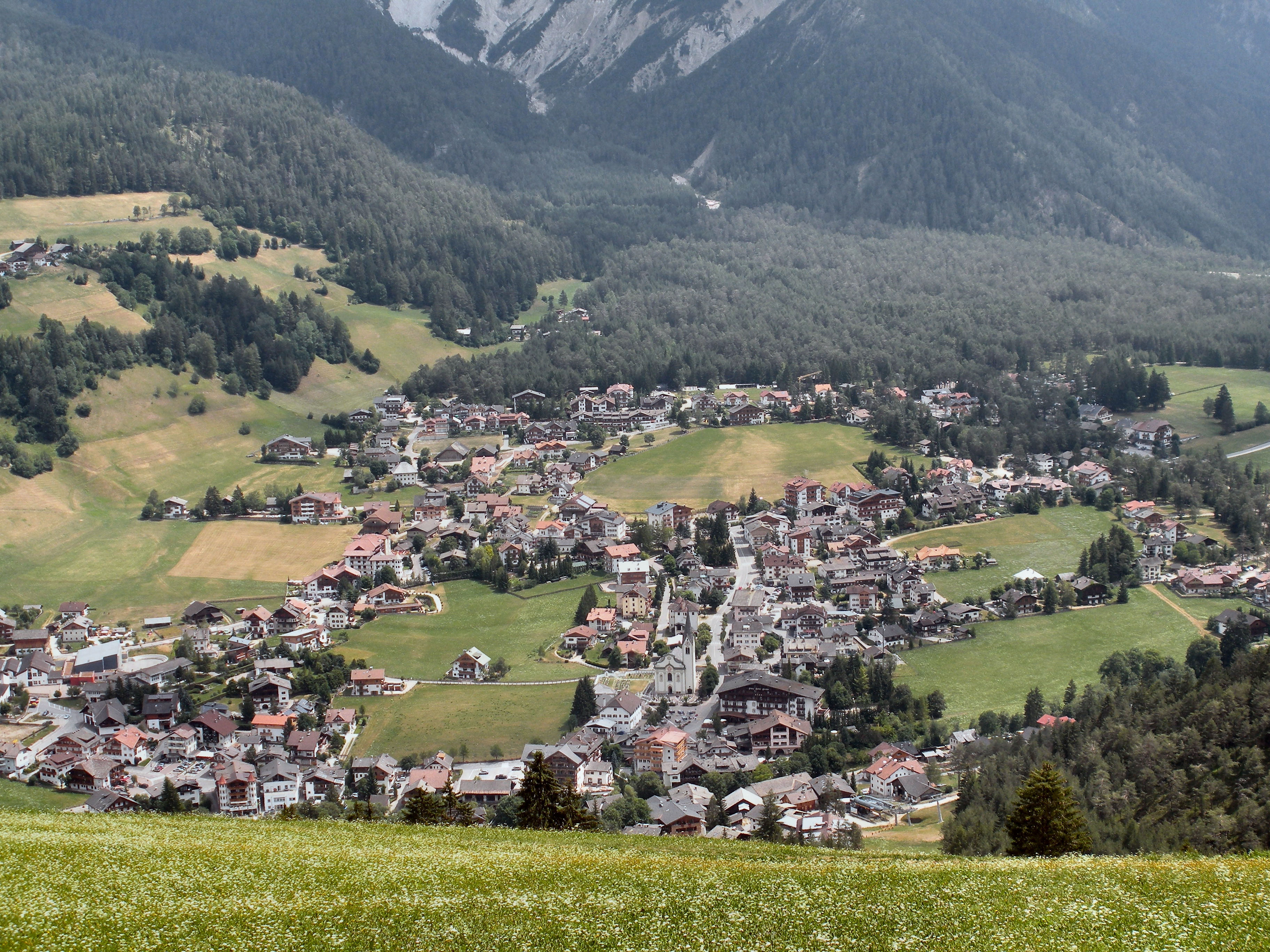 View of S. Vigilio (Marebbe, Sudtirol, Italy)